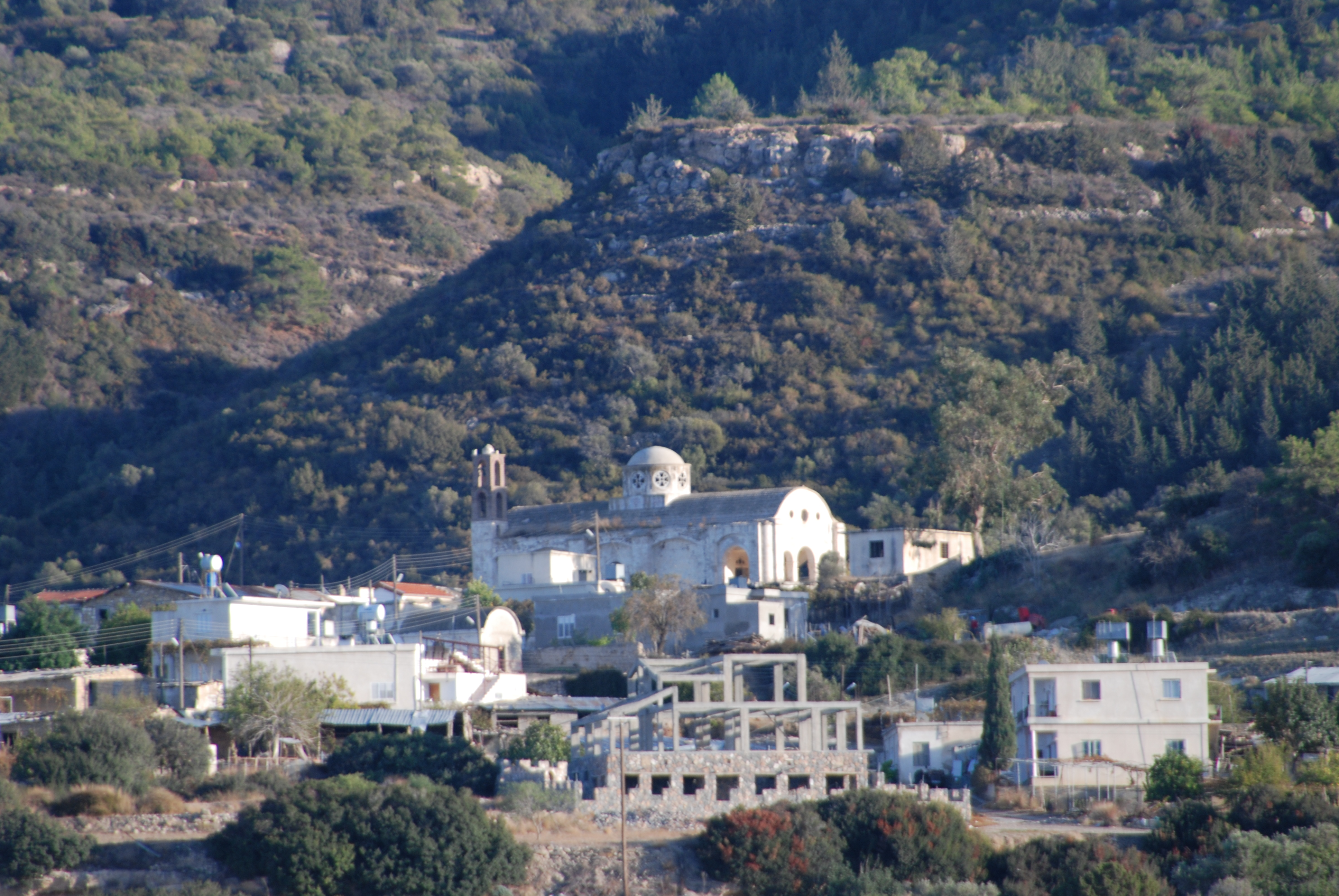 Davlos and Kantara Davlos is a purely Greek community of the occupied part of the District of Ammochostos. Geographical Location: It lies 34 klm North of the town of Ammochostos, on the Northern slopes of the Pentadaktylos mountain range, one klm away from the coast at a height of 70m. Population: The population of these communities in 1960 numbered 462 all Greek. Schools: The greek Primary School that operated here before the Turkish Invasion of 1974 had during the 1973-74 school year 30 students. Effects of Turkish Invasion: During the Turkish Invasion of 1974 the communities were taken over by the Turkish army and as a result the whole of their Greek population was displaced. Since then, the Turkish occupation forces and the illegal occupation authority prohibit their return. From